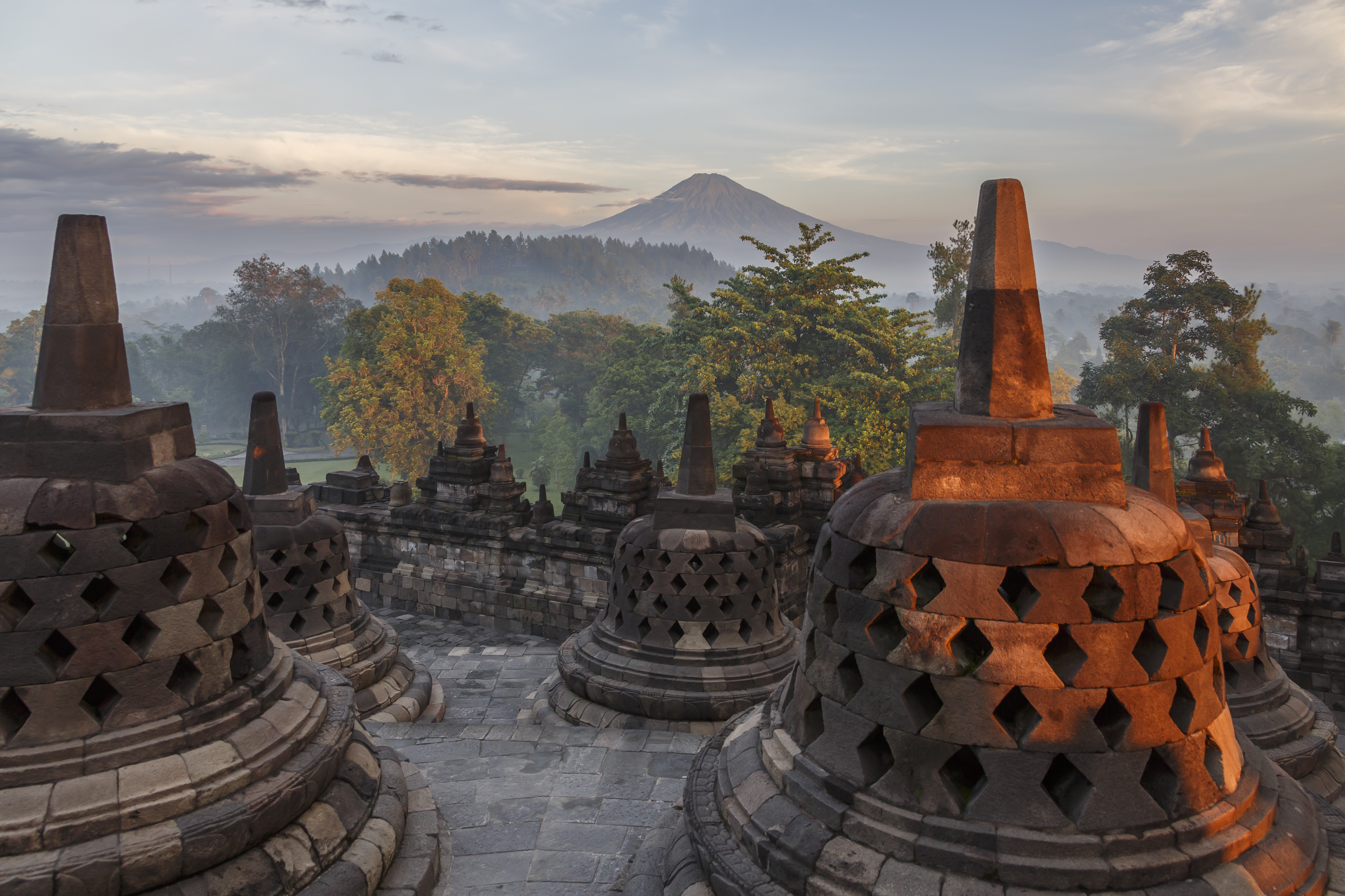 Borobudur temple Park, Indonesia: Early morning atmosphere in Borobudu Temple Park.